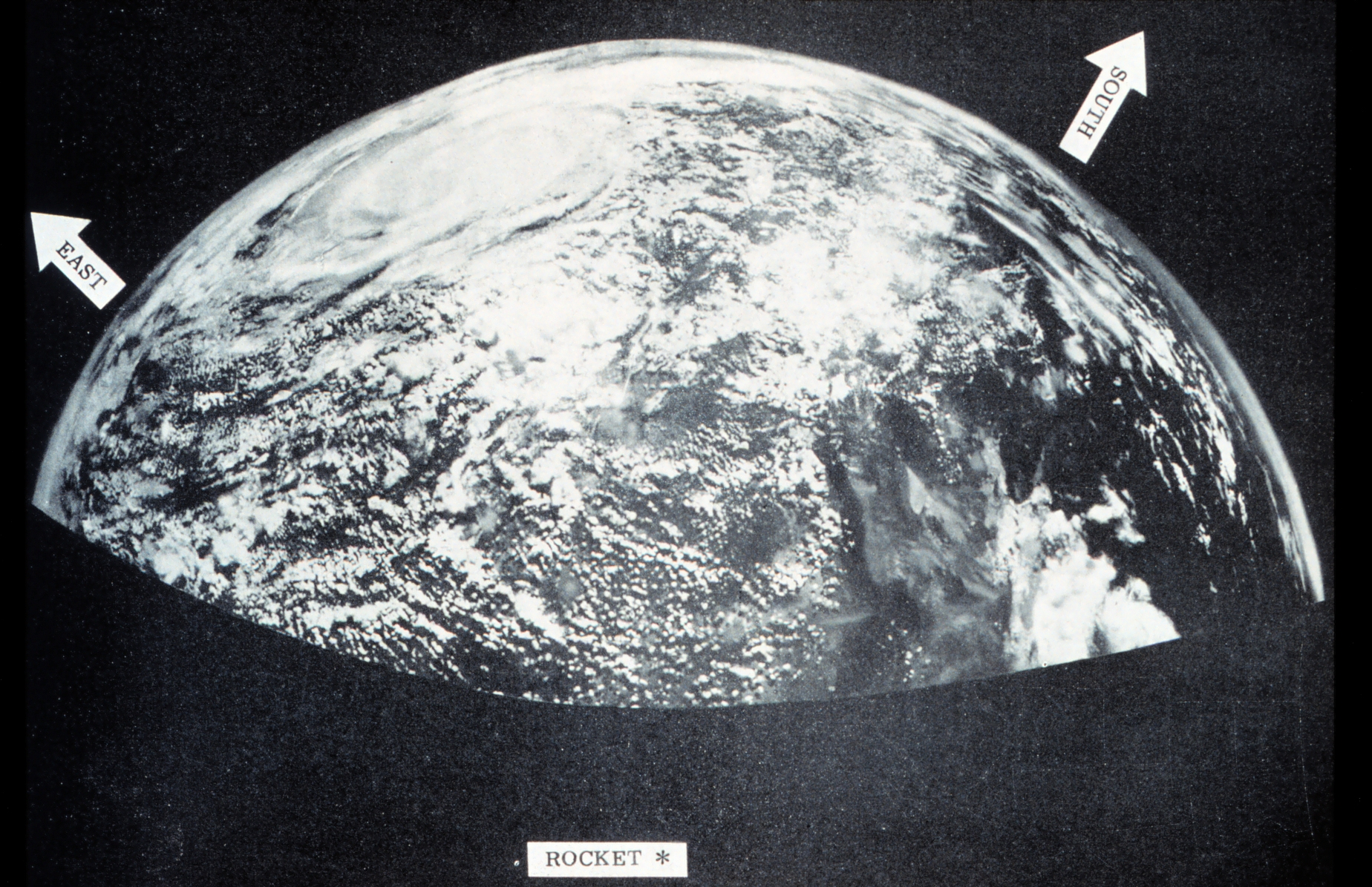 This is a photomosaic of the first natural color images of the Earth sucessfully taken from a high-altitude rocket. It image shows a large swathe of land to the south and east of the launch site and a tropical cyclone is visible over Del Rio, Texas. This image is also the first ever taken from a sufficient altitude to show the large scale structure of a storm and hints at the promise of meteorological satellites. The rocket was a US Navy sounding rocket launched at 1815 GMT on October 5, 1954 from White Sands, New Mexico and it was at an altitude of about 100 miles when this image was captured. There is a paper available describing this rocket launch and the associated imagery in the Monthly Weather Review.